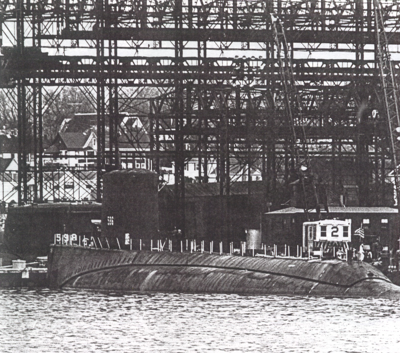 USS Triton fitting out at Electrc Boat.